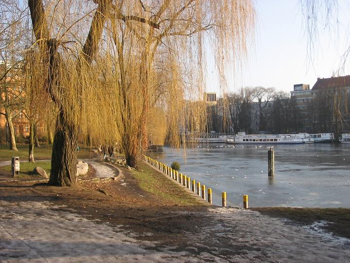 Landwehrkanal in Berlin-Kreuzberg. Urbanhafen, bank between Segitzdamm and Erkelenzdamm.